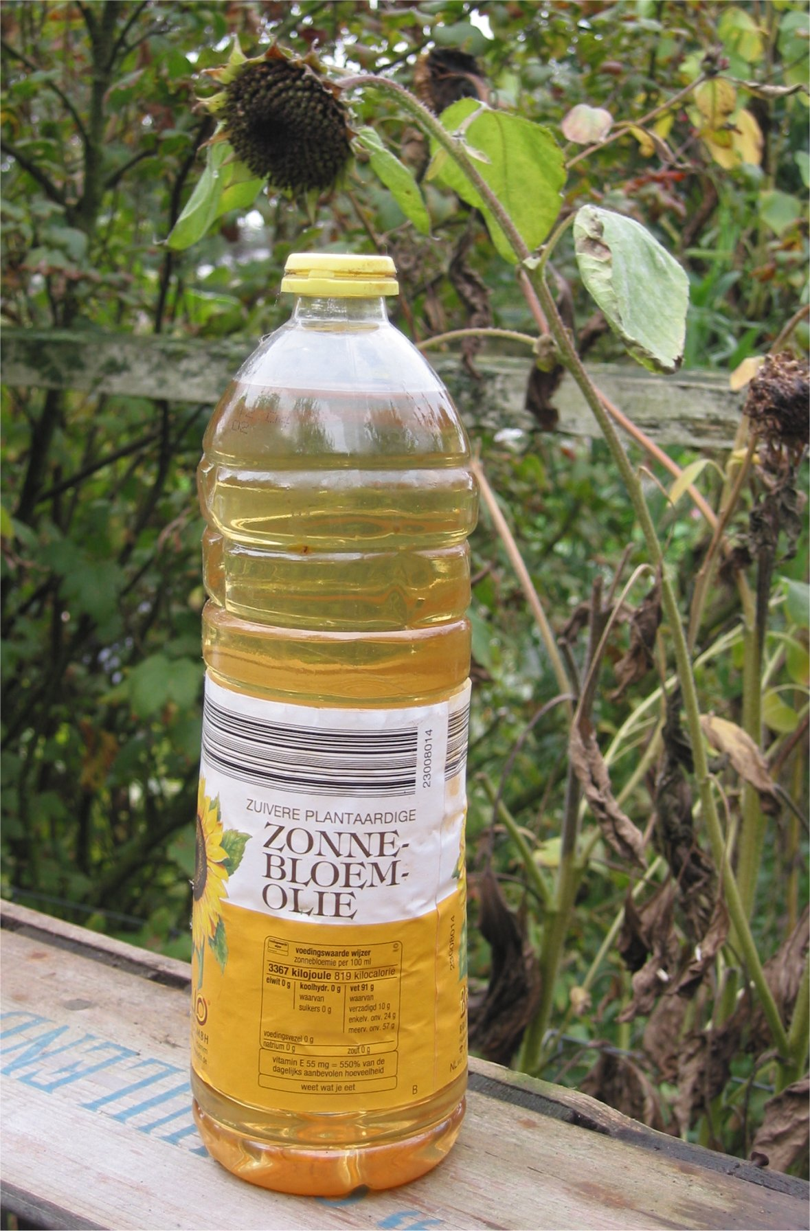 Sunflower oil